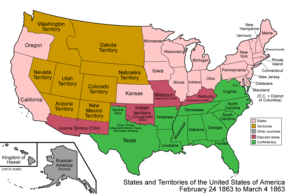 Map of the states and territories of the United States as it was from February 1863 to March 1863. On February 24 1863, the Union split its own Arizona Territory from New Mexico Territory, including about half of the CSA's Arizona Territory. On March 4 1863, Idaho Territory was created from portions of Washington, Dakota, and Nebraska Territories.